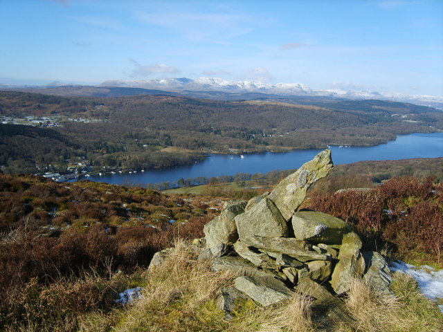 Cairn on Staveley Fell Looking over Windermere. The top of the Wainwright Outlier is clear of planting. There there does not appear to be a route to it. My approach from the north used the old wall as guide through the dense plantings.